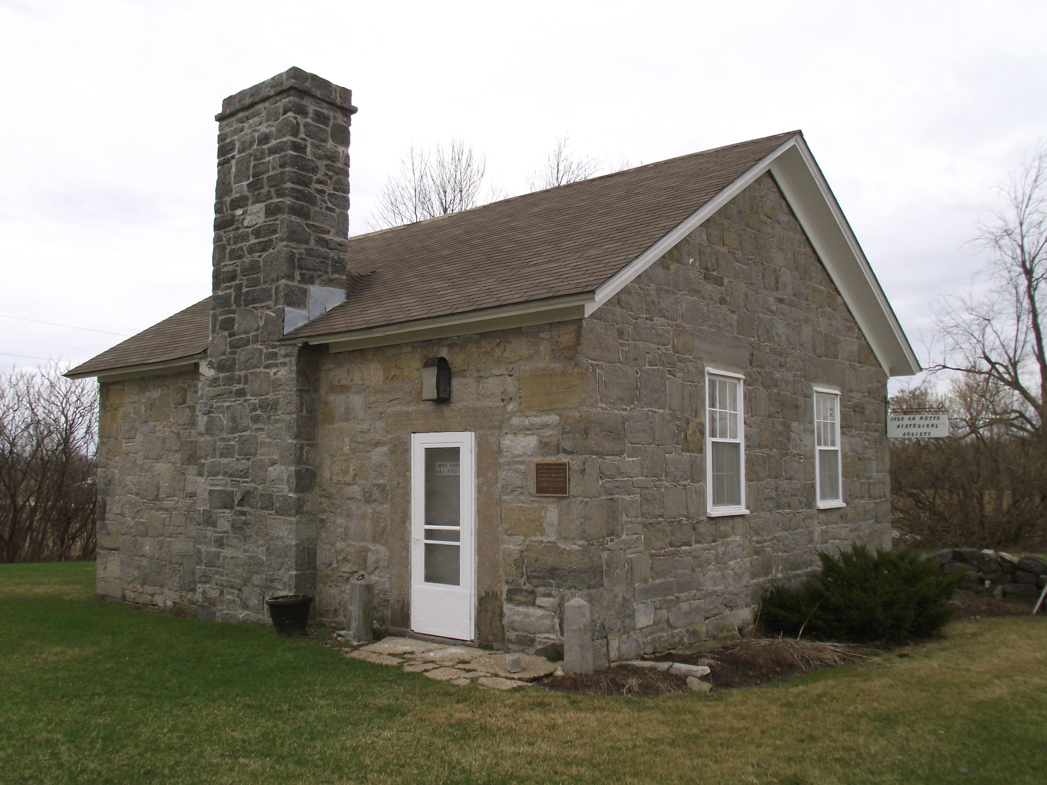 1843 Schoolhouse, listed on the National Register of Historic Places